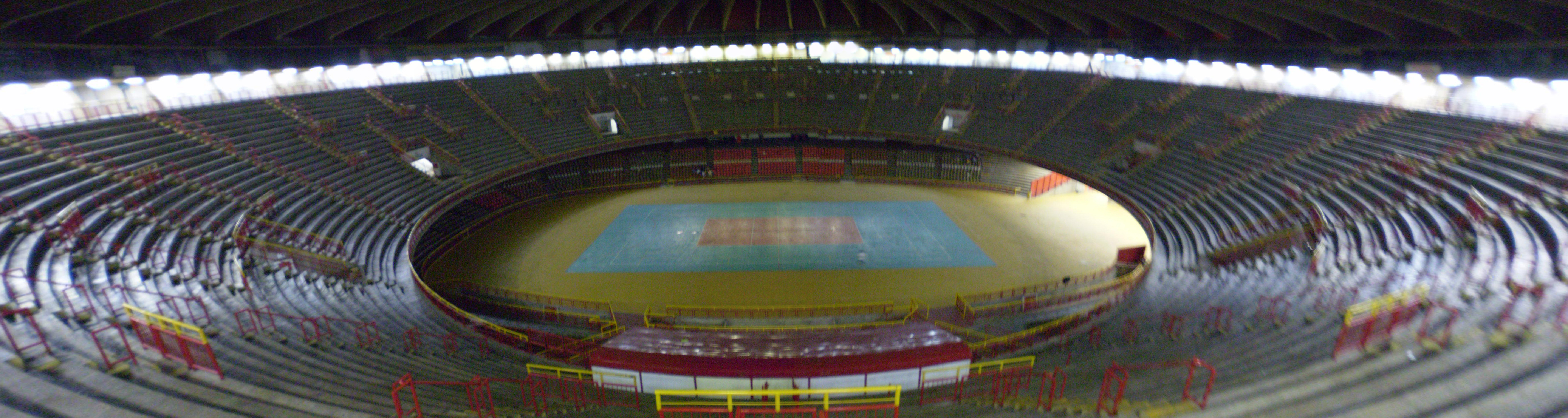 Bench of Mineirinho